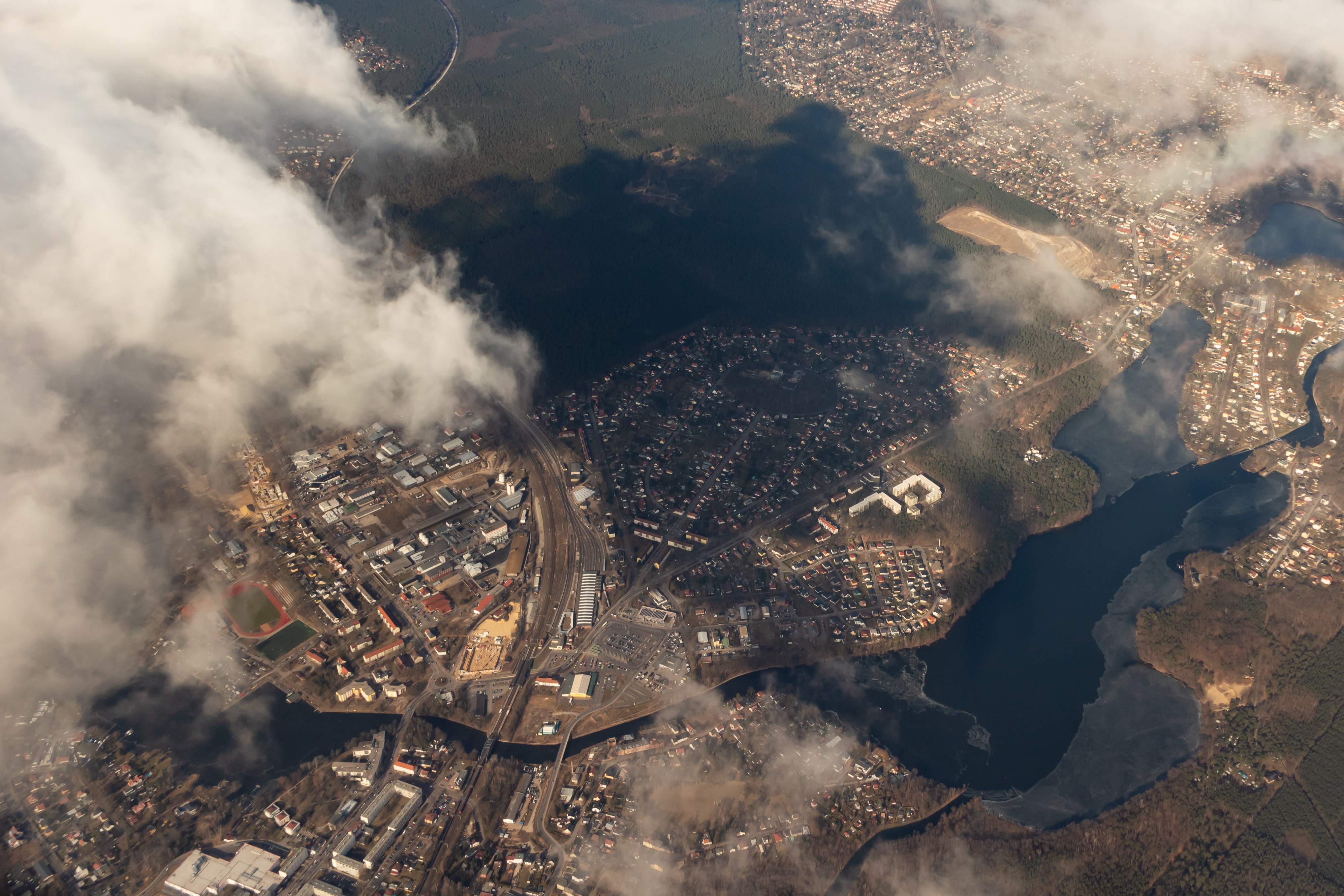 Erkner, aerial view